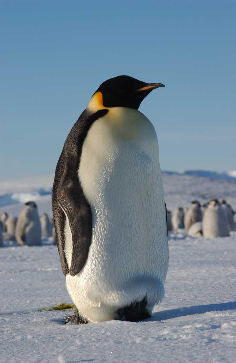 Emperor Penguin, Atka Bay, Weddell Sea, Antarctica